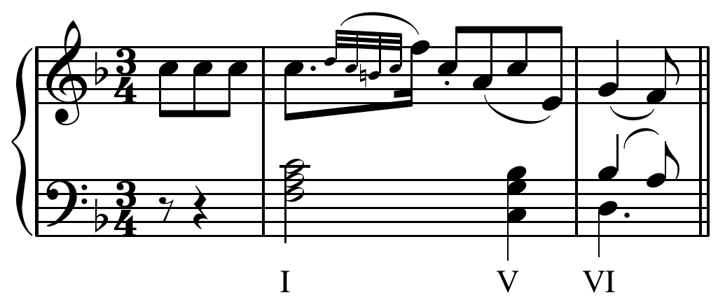 Deceptive cadence in Mozart's Sonata in C Major, K. 330, second movement.